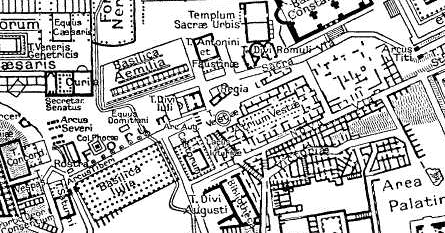 Map of antique downtown Rome, explicitly Forum Romanum, drawing.